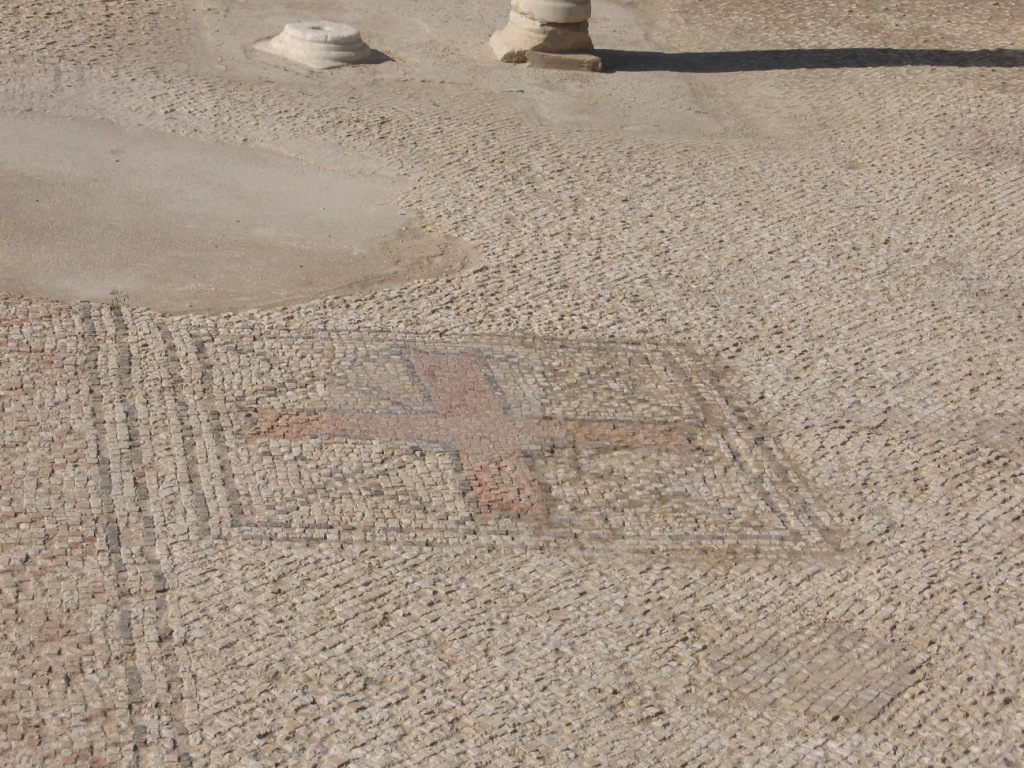 The Mamshit Church's mosaic